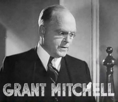 Grant Mitchell in The Garden Murder Case - trailer (cropped screenshot)